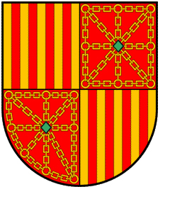 Coat of Arms of the Fernández de Híjar